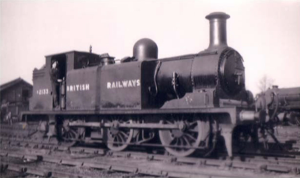 British Railways Steam Tank Engine No. 2133. Originally a London Brighton and South Coast Railway Class E1 Stroudley 0-6-0T. One of 73 built between 1874 and 1884.